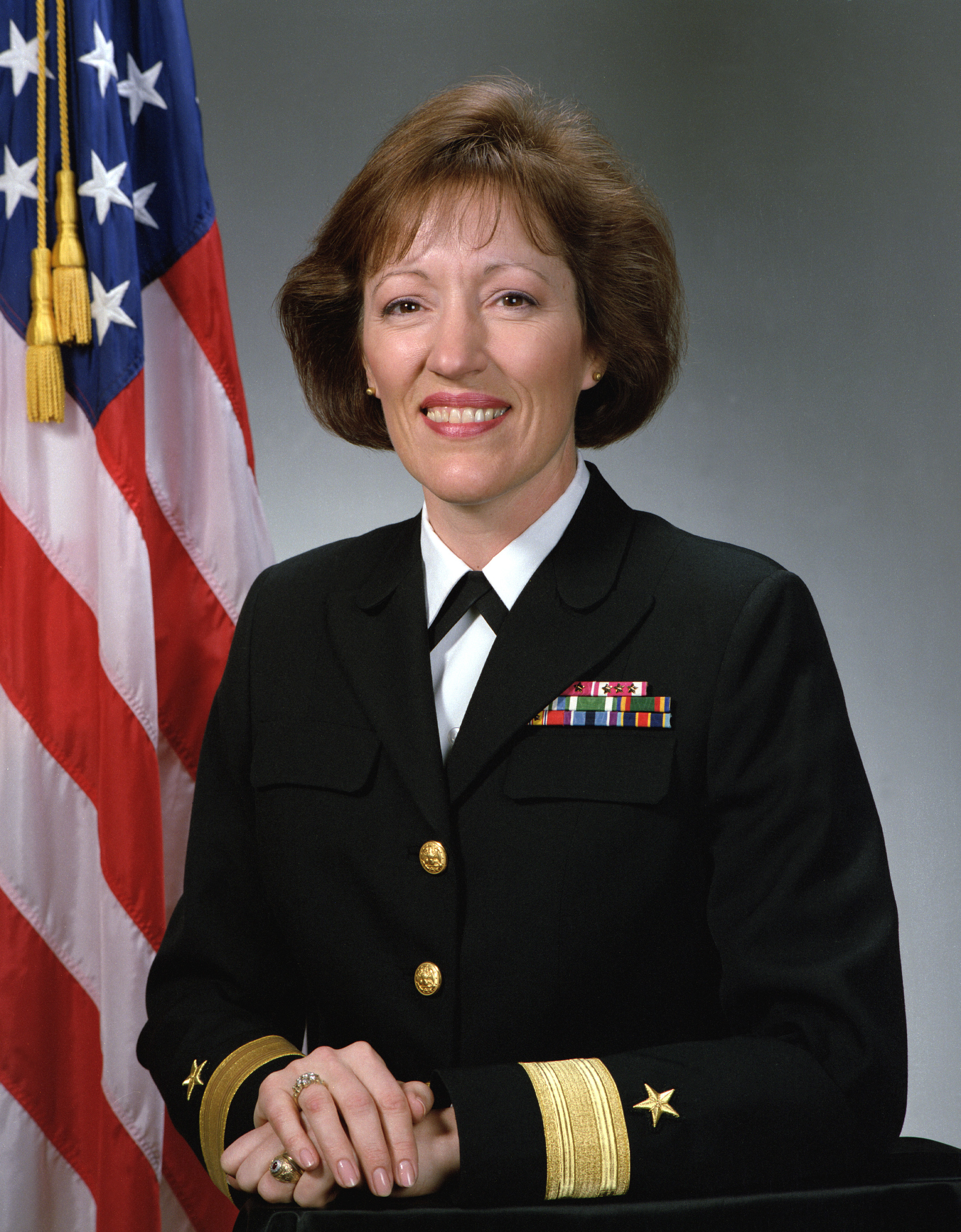 Rear Adm. (lower half) Marsha J. Evans